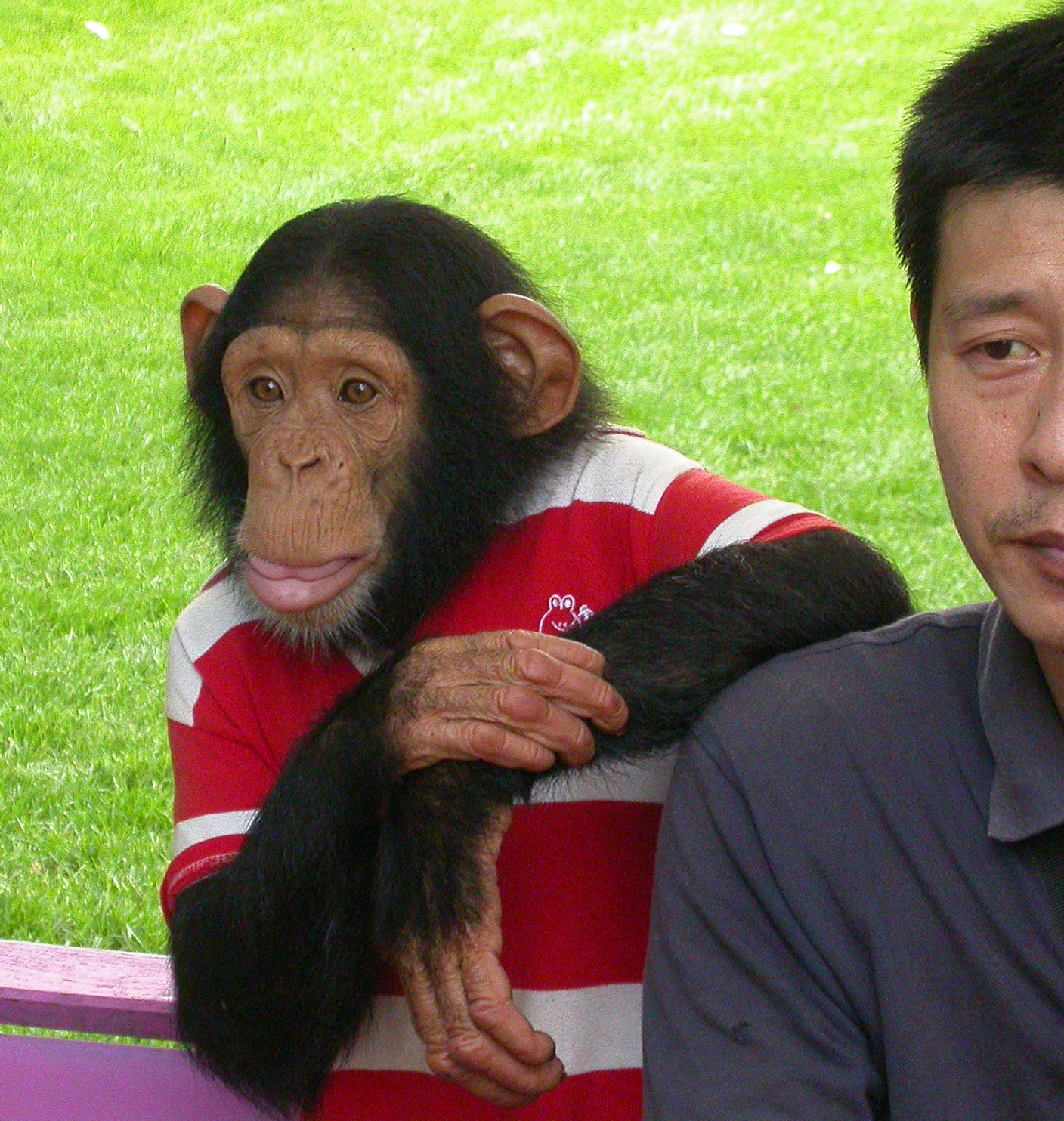 This juvenile chimpanzee lives in Beijing zoo. It was about 2 years old in 2005 and was used as a model to take pictures with tourists.